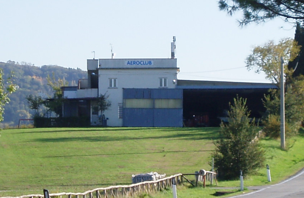 Zoomed image of Acs.jpg